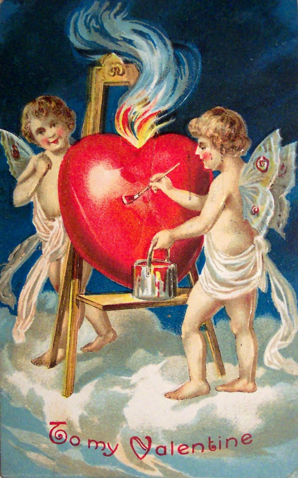 Scan of a Valentine greeting card dated 1909.